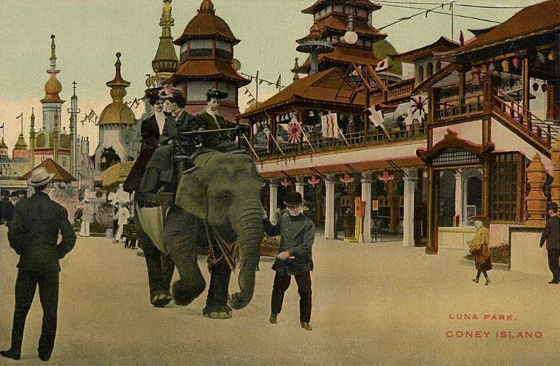 Elephant ride in Luna Park, Coney Island, New York